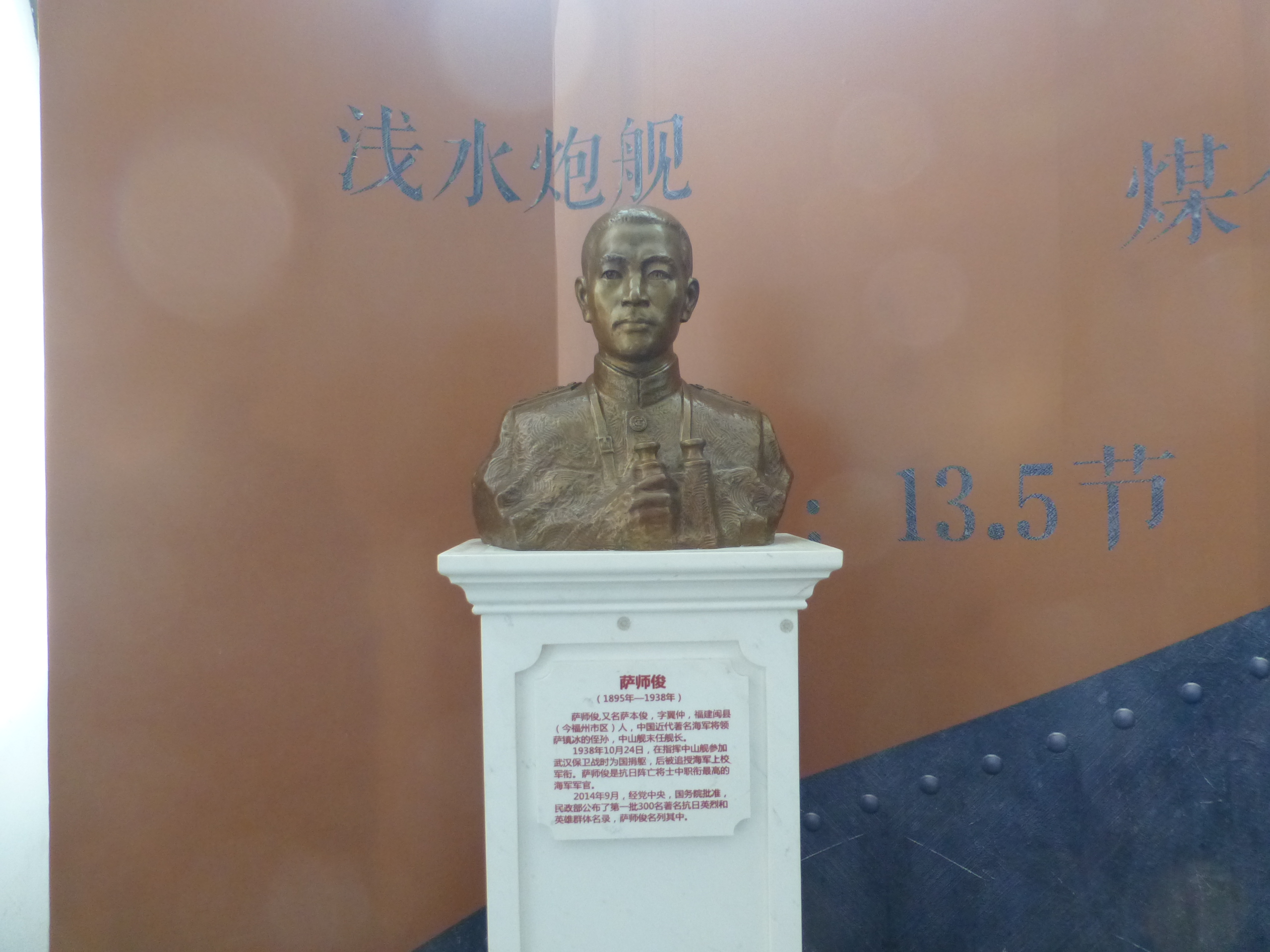 Restored gunboat Zhongshan in its museum